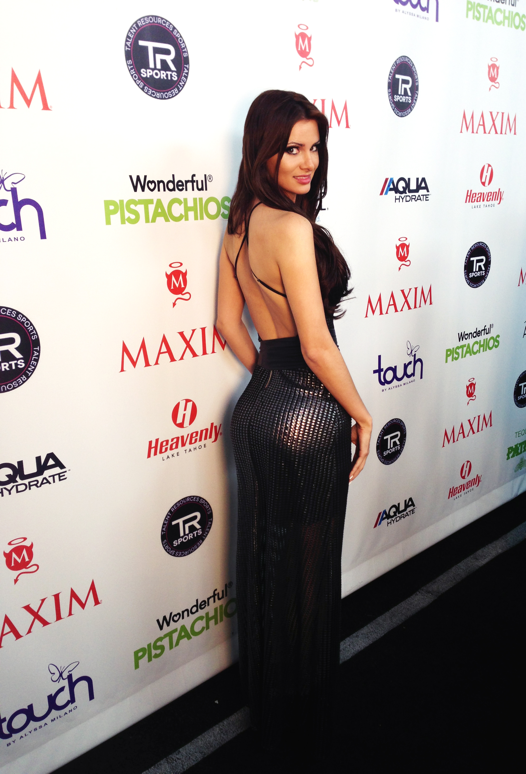 April Rose attends the Maxim Super Bowl Party.